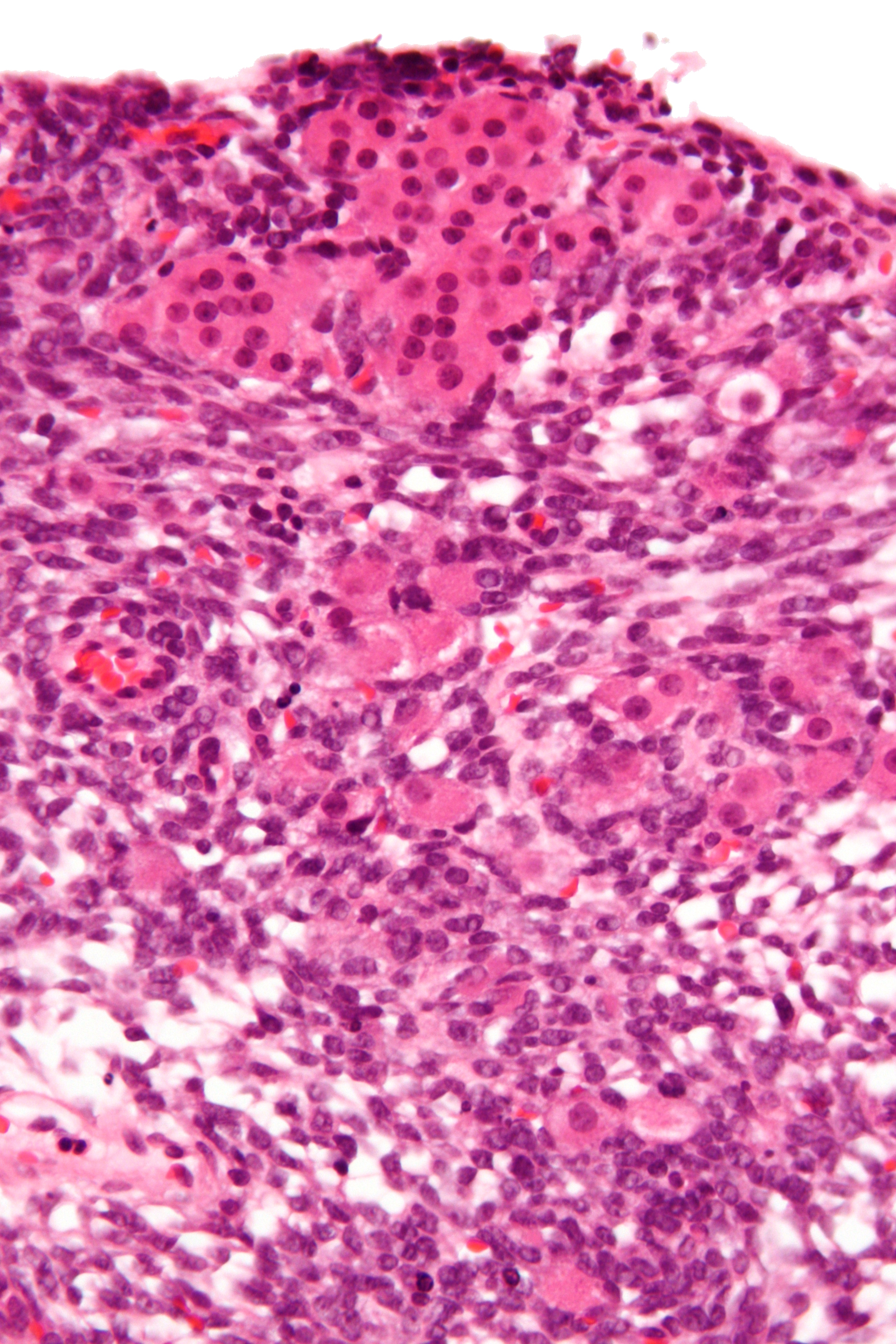 Very high magnification micrograph of a Sertoli-Leydig cell tumour, also written Sertoli-Leydig cell tumor. H&E stain. Related images Intermed. mag. High mag. Very high mag.